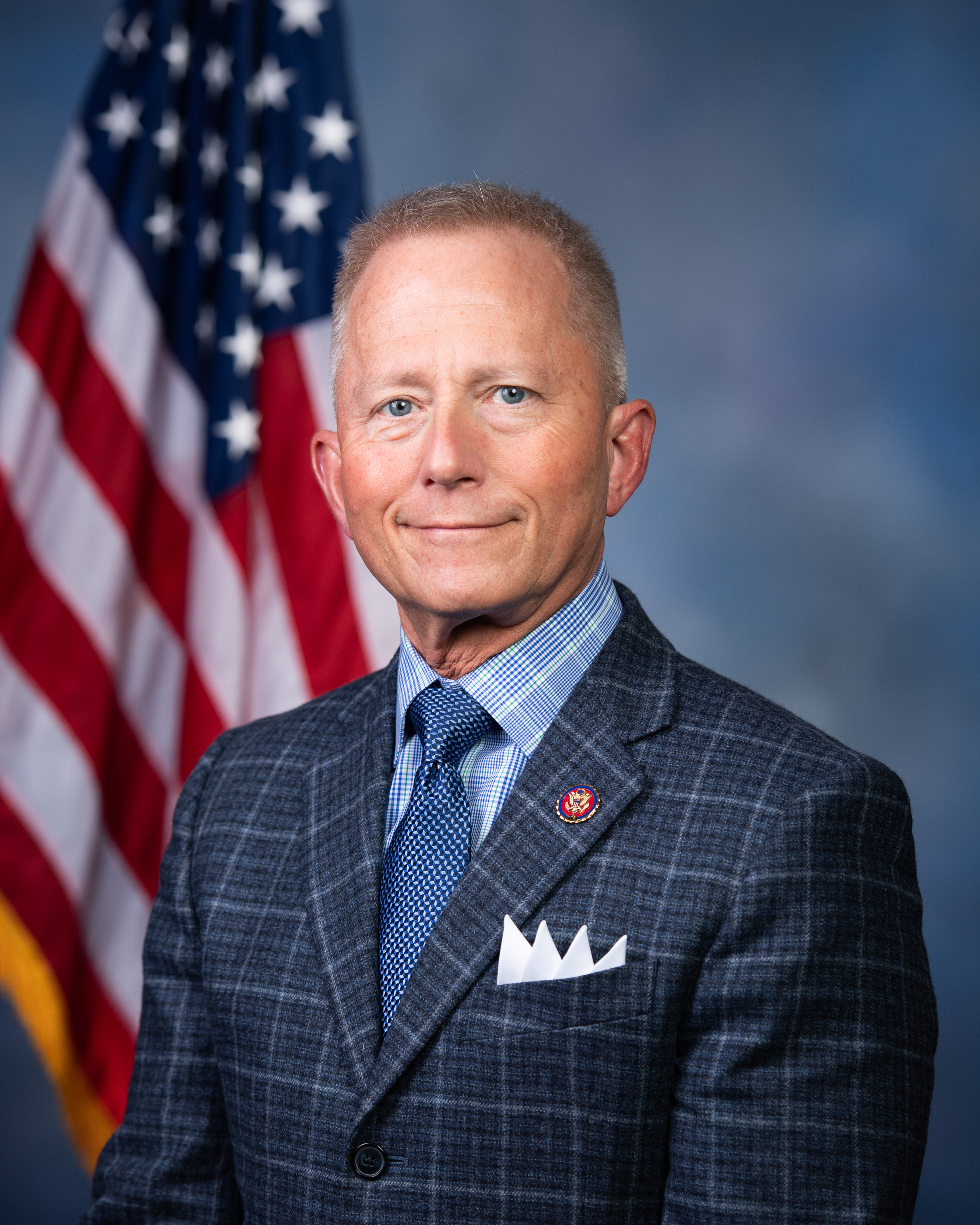 Portrait of U.S. Rep. Jeff Van Drew (R-NJ)